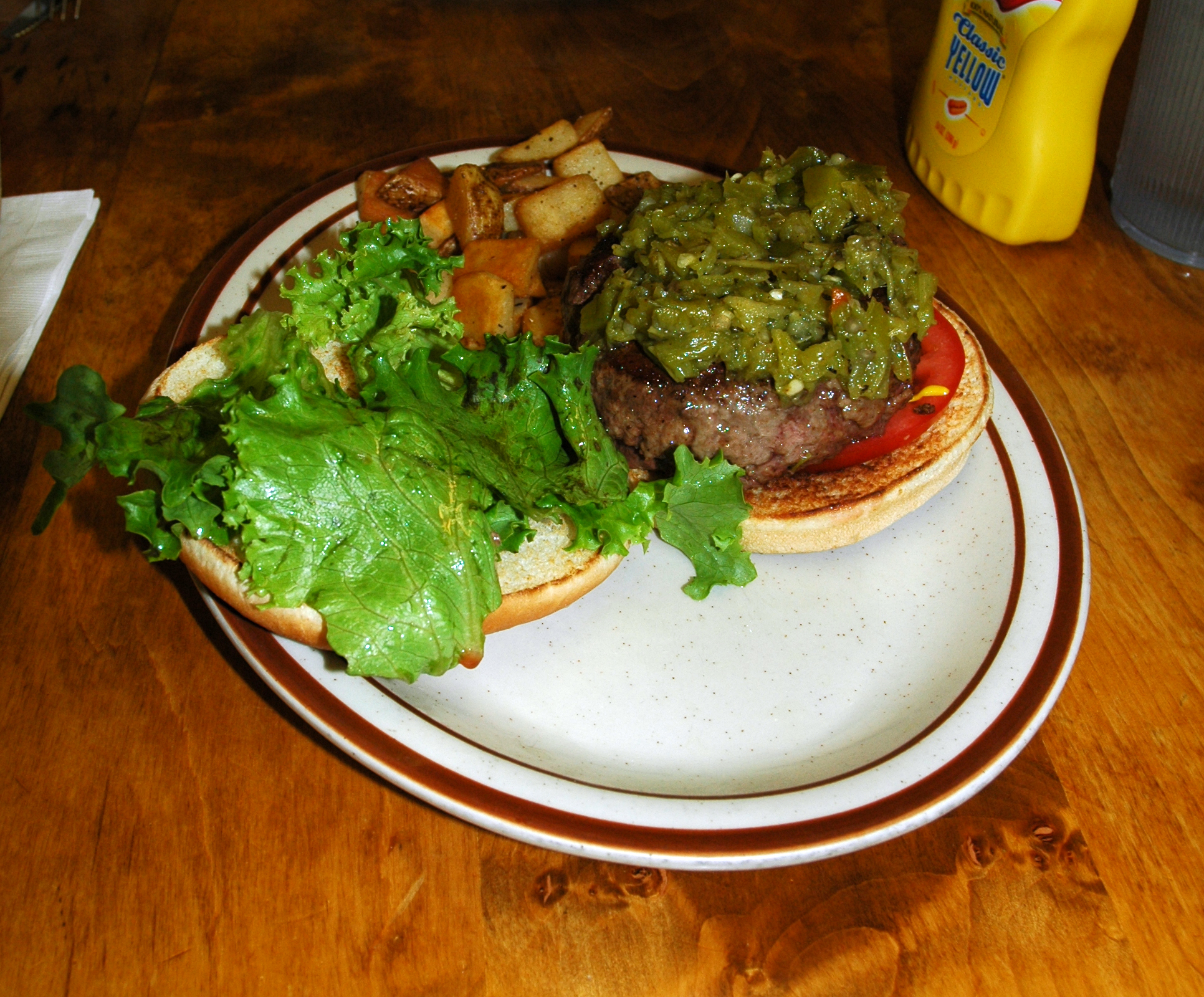 The legendary Bobcat Bite burger, ranked #12 in the Alex Richman's "The 20 Hamburgers You Must Eat Before You Die" article. This is the only burger I've eaten who's patty resembles the meat masterpieces I cook up at home, both in terms of rareness and the quality of the chuck used. It's one of the best hamburgers I've had outside of my living room, and I'll be going back again every time I'm in Santa Fe. The green chile was a reliable New Mexico touch, and really complimented the burger. The whole building should be plated in gold and the cooks should sleep in hyperbaric chambers to extend their working lifespan. Michele couldn't finish her cheeseburger and I snacked on the remaining half the next day. That burger was better plain, a day old and cold than most burgers are fresh off the grill.